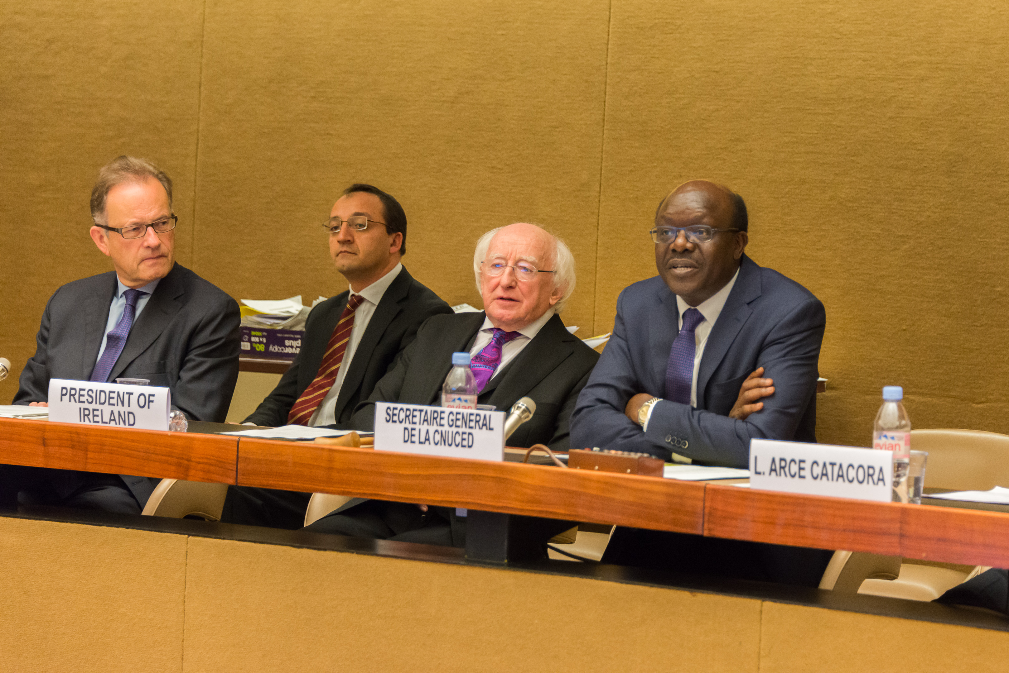 The UNCTAD 10th Debt Management Conference was opened by Mr. Michael Møller Director General of UNOG, H.E. Mr. Michael D. Higgins, President of Ireland, Dr. Mukhisa Kituyi, Secretary-General of UNCTAD (From Leaft to right)